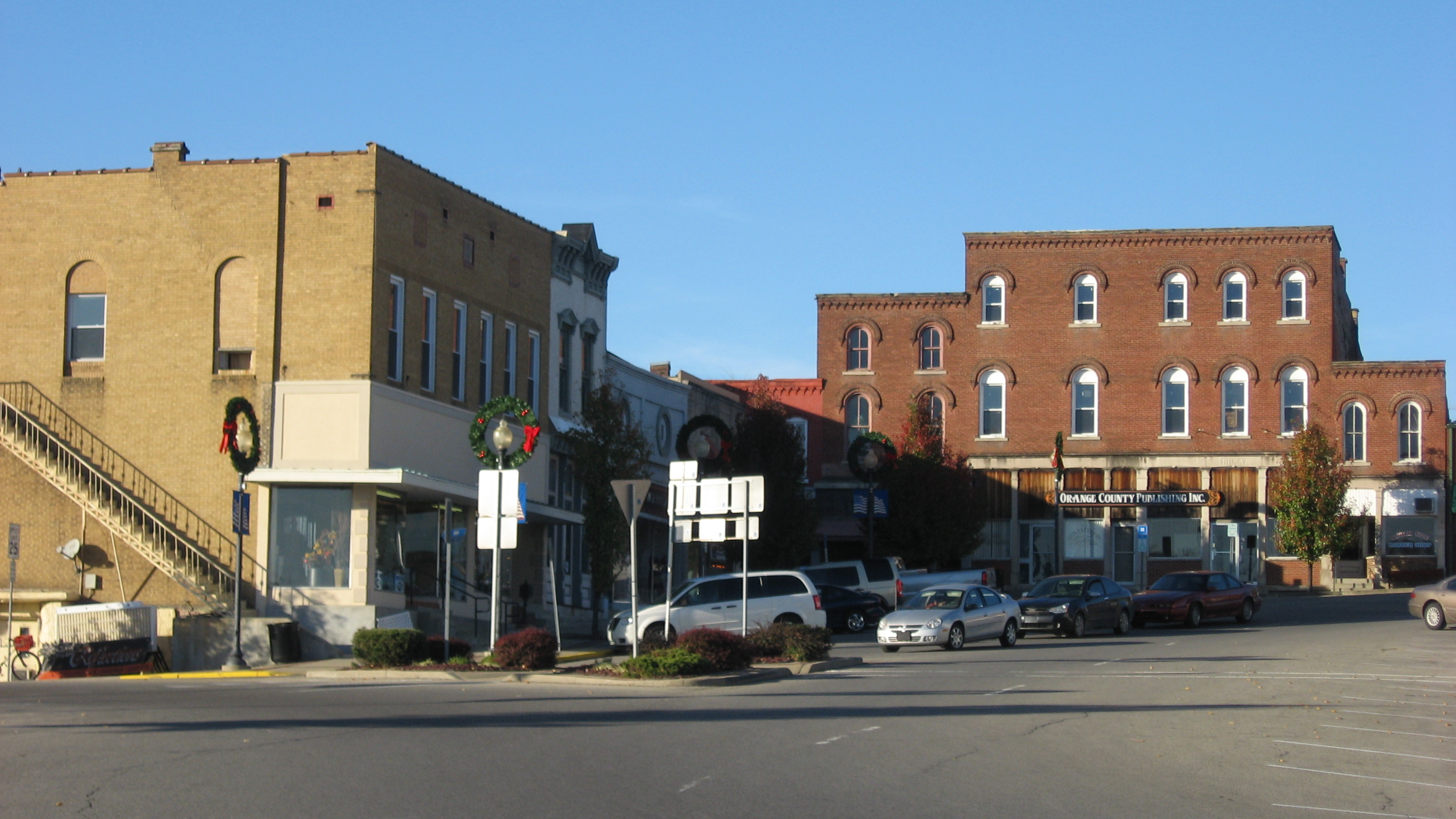 Buildings on the northwestern quadrant of the courthouse square in Paoli, Indiana, United States. These buildings are part of the Paoli Historic District, a historic district that is listed on the National Register of Historic Places.